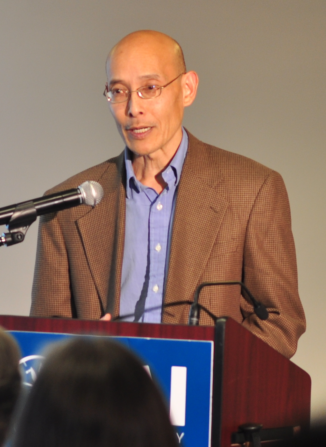 Ron Chew speaking at a History Cafe event about Wing Luke, May 19, 2016 at MOHAI (Museum of History and Industry), Seattle. Chew is former executive director of the Wing Luke Museum, former editor and still a board member of Executive Director of the newspaper International Examiner, and executive director of the International Community Health Services Foundation.